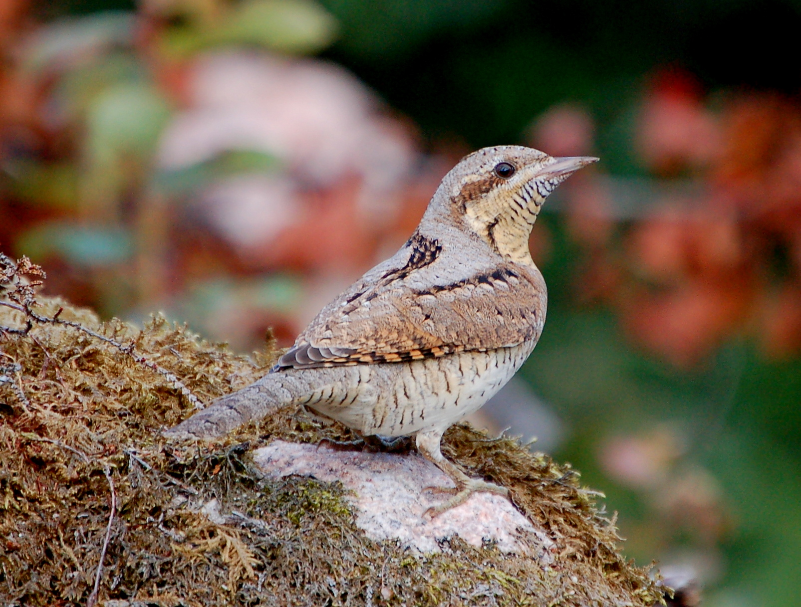 Eurasian Wryneck, Jynx torquilla, at Ramsøy, Norway